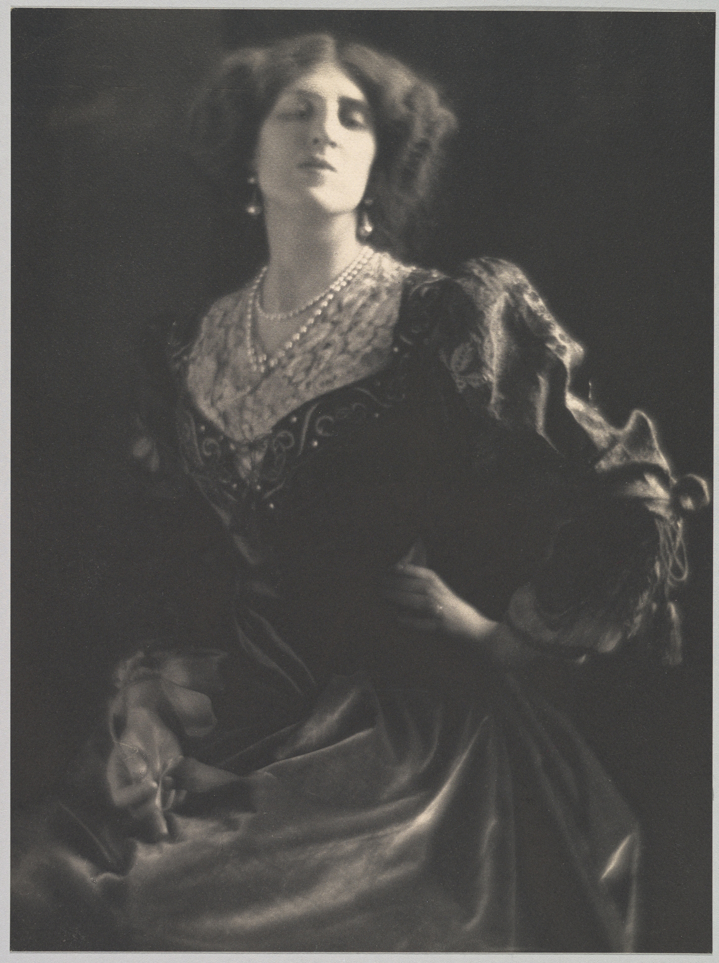 Photographic portrait of Lady Ottoline Morrell by Adolf de Meyer, circa 1912